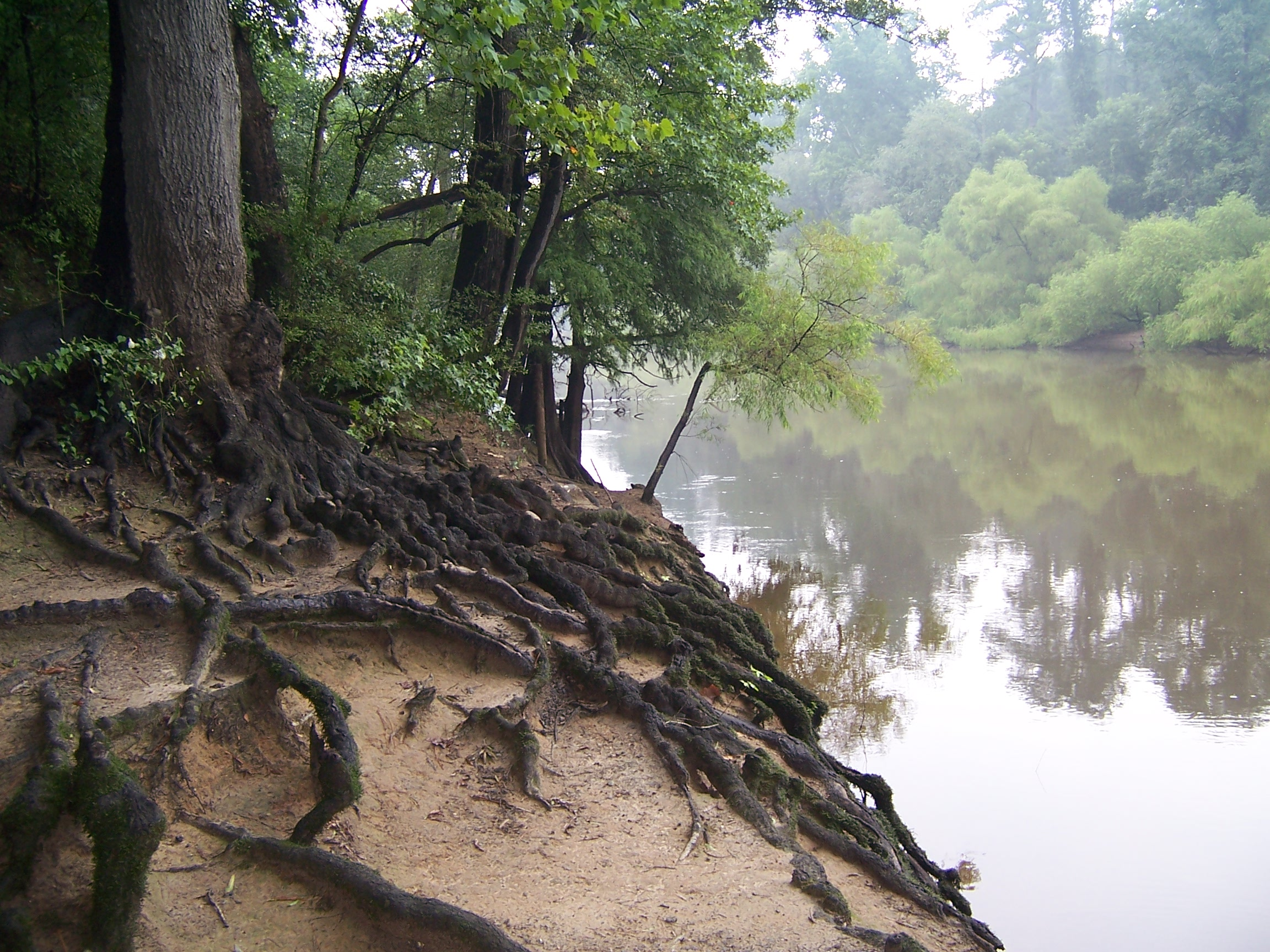 Tree roots along the Neuse River. At Cliffs of the Neuse State Park — in Wayne County, North Carolina.